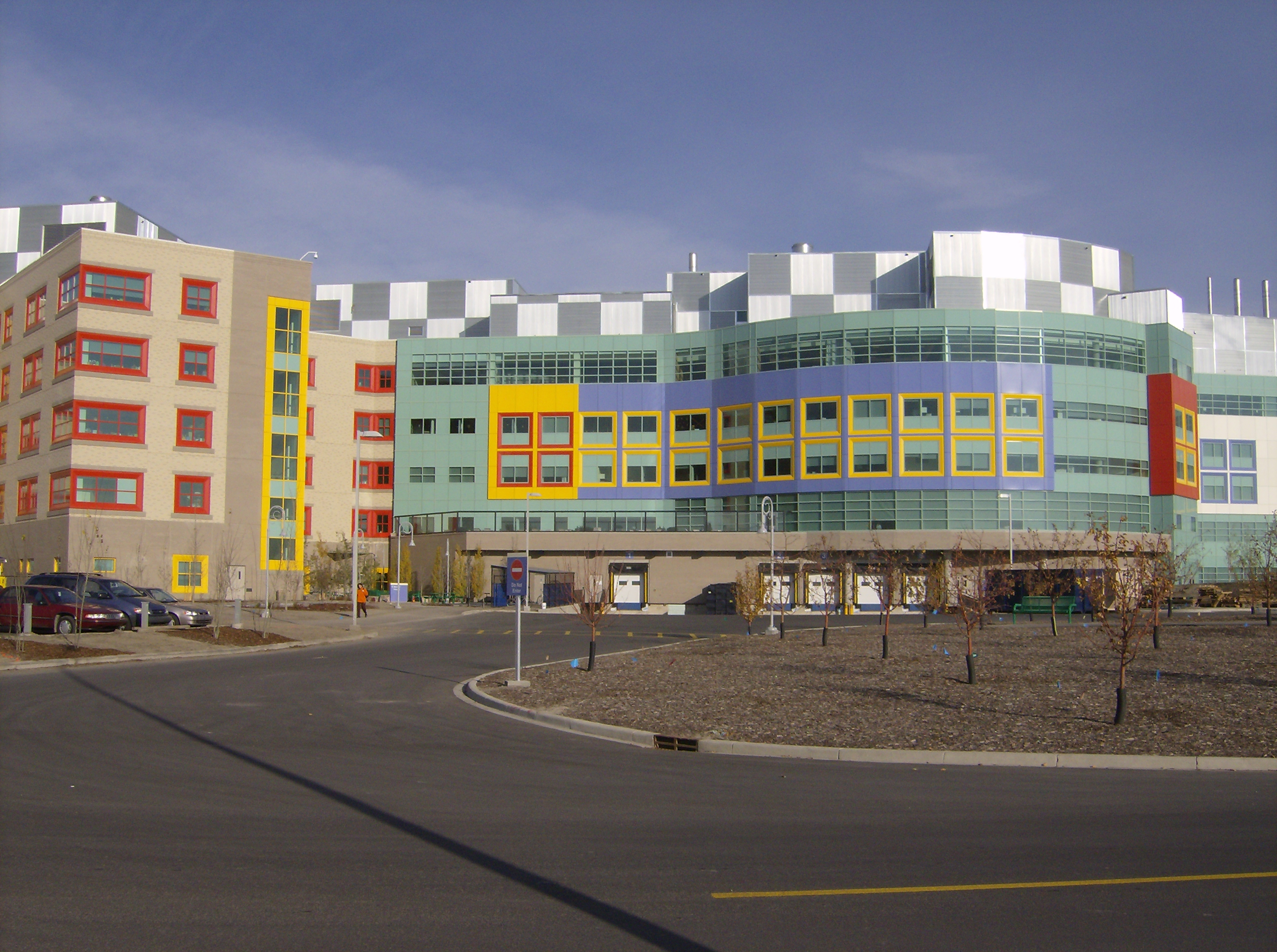 Alberta Children's Hospital in Calgary, Alberta. This is at the new location (as of 2006) of the hospital.